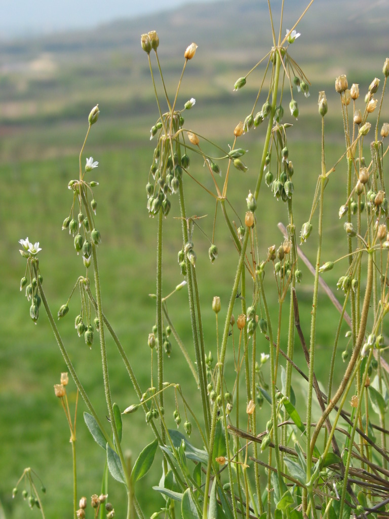 Holosteum umbellatum